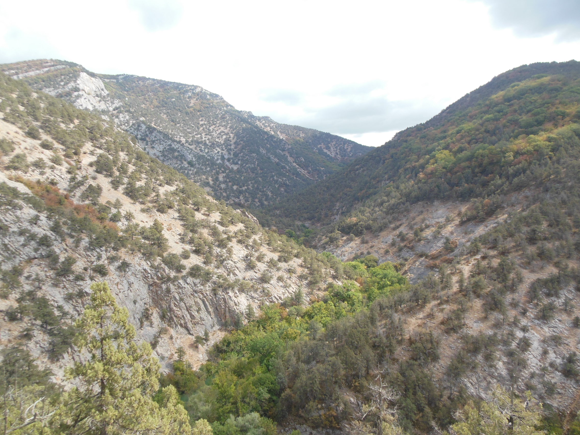 Chernorechenskij canyon, river Chornaya, Crimea.